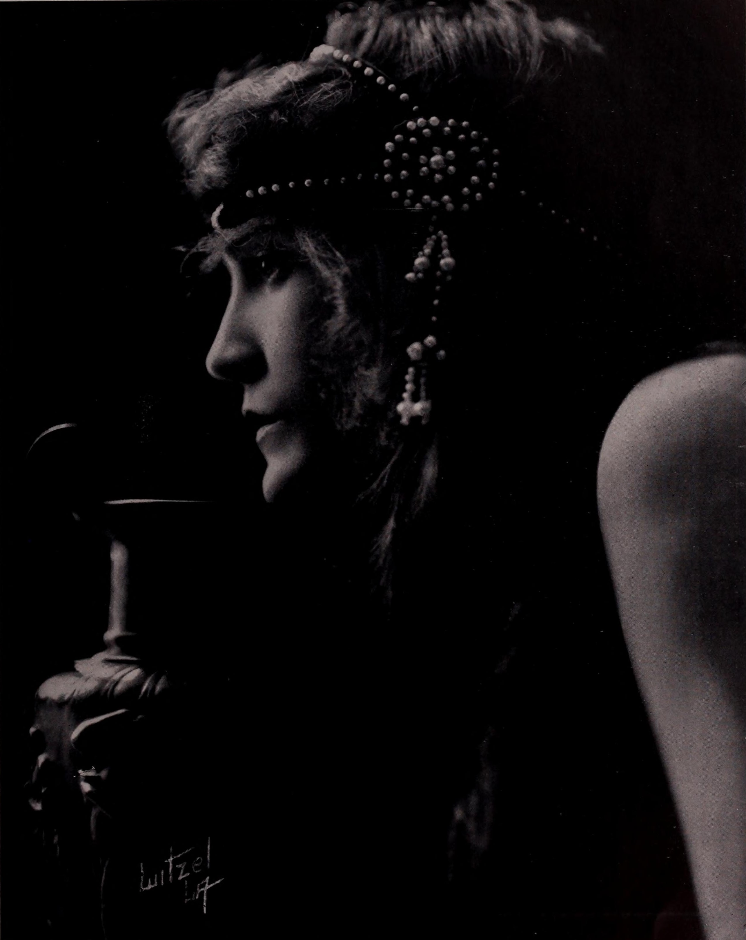 Portrait of actress Claire McDowell from Motion Picture Classic